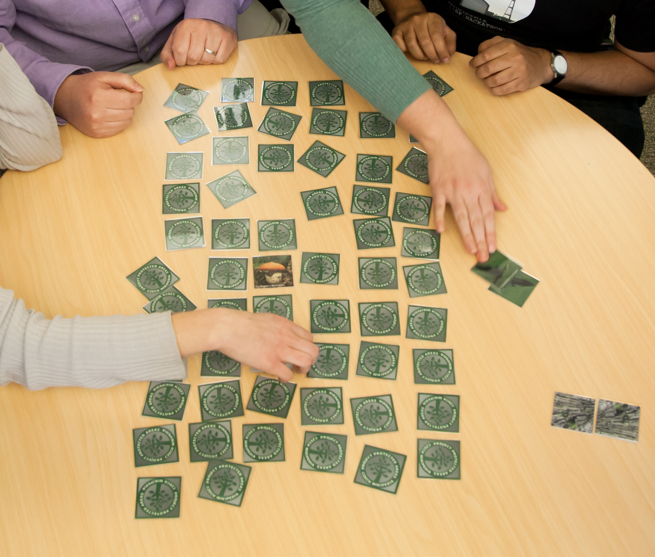 Wikimedia Foundation staff playing the Wikimedia Czech Chapter Protected Areas card game at the Wikimedia Foundation offices.